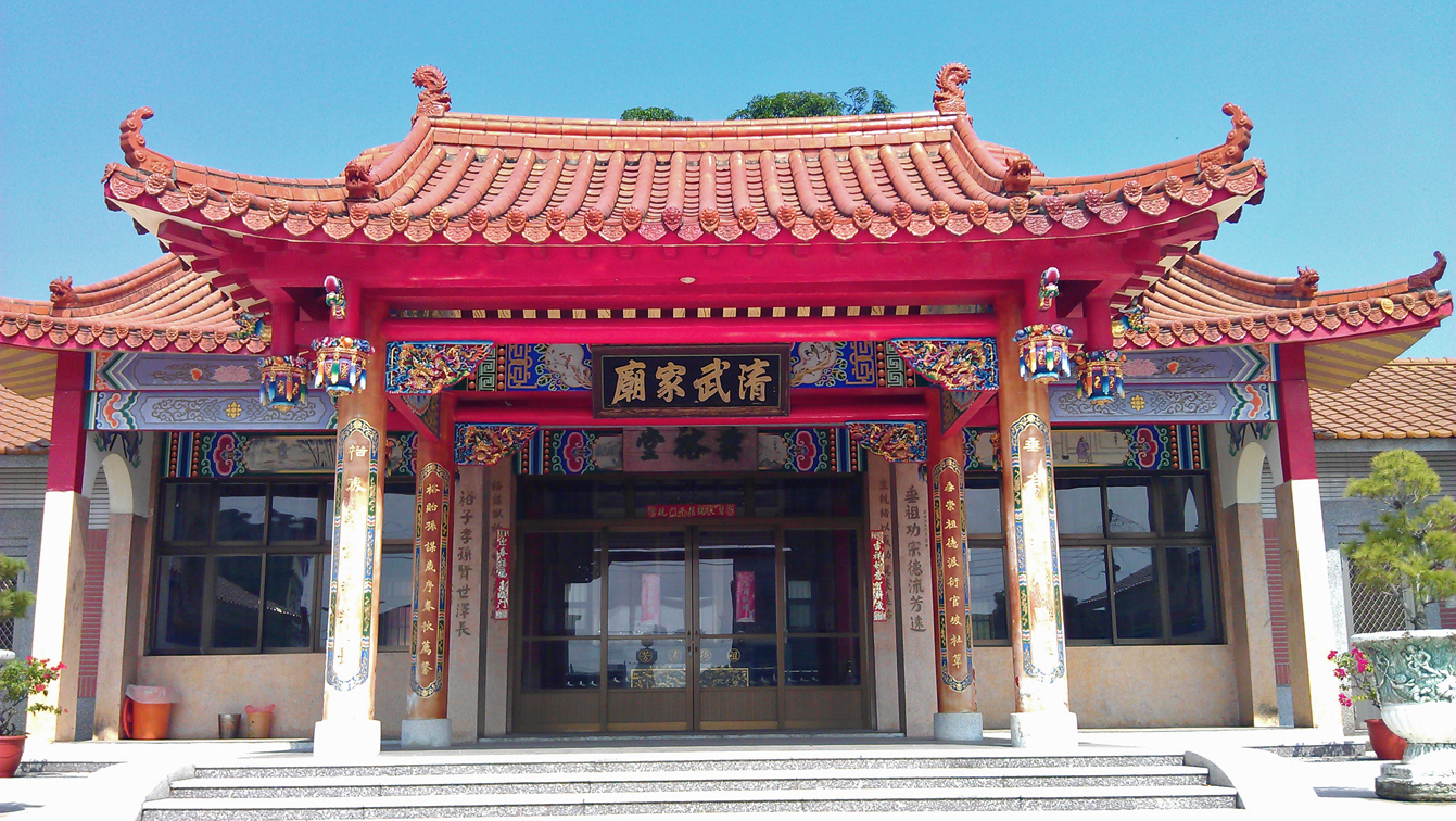 Zhang Liao's Qingwu Family Temple, Xitun District, Taichung.中文（台灣）: 位在臺中市西屯區清武家廟。